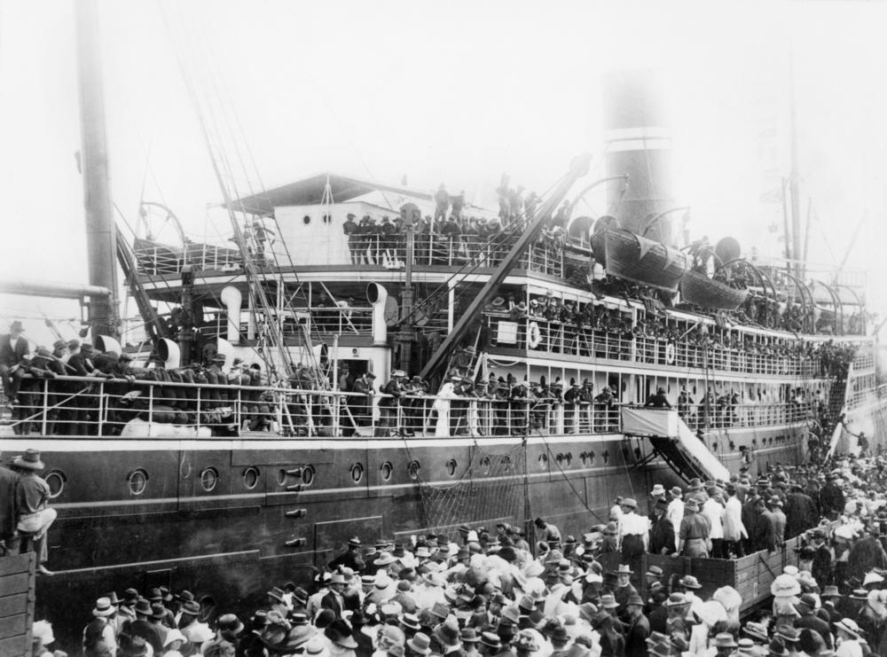 First troops leaving Townsville, Queensland, bound for Thursday Island, 1914. First troops leaving Townsville per the troopship, Kanowna, under sealed orders. The group was part of the New Guinea Expeditionary Forces dispatched from Australia. It carried 1,000 troops including 500 infantry and went from Townsville to Thurdsay Island, then on to Port Moresby.